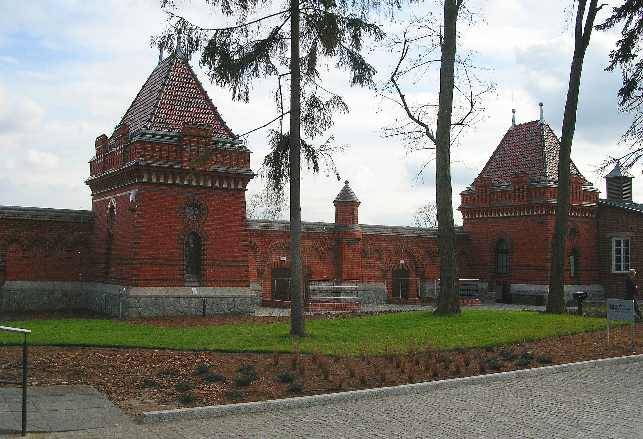 The building of the educational exhibition "Hydropolis", former water tank from 1893.